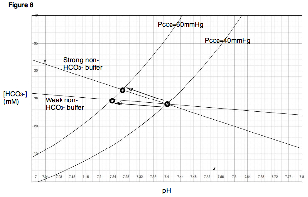 Description: Figure 8. The presence of strong non-bicarbonate buffers results in a buffer line with a steep slope, while the presence of weak non-bicarbonate buffers results in a buffer line with a slope closer to zero.